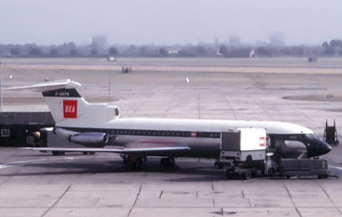 BEA Trident. British European Airways Hawker Siddeley Trident at London Heathrow Airport, England in 1964